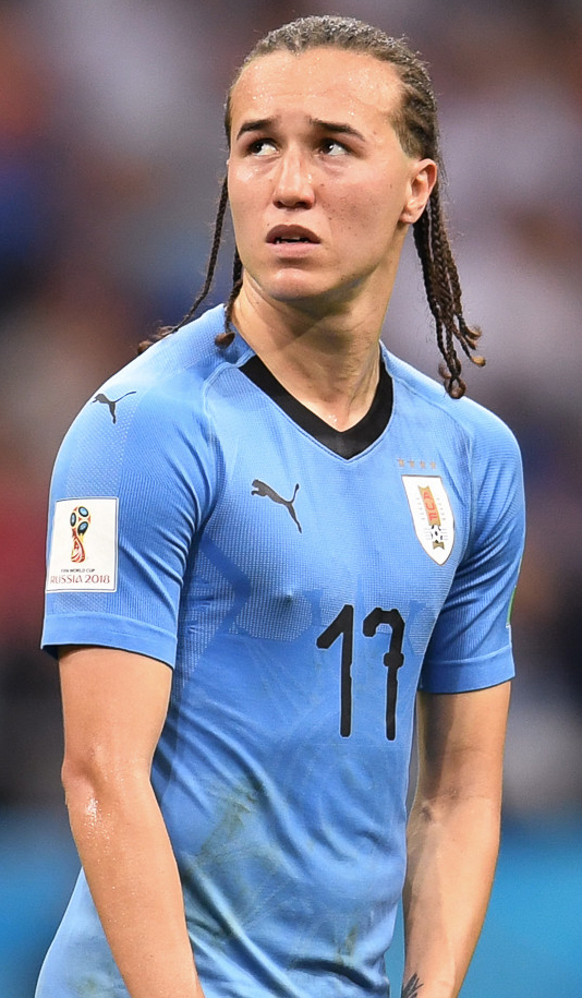 Uruguayan footballer Diego Laxalt on 30 June 2018, during the 2018 FIFA World Cup Round of 16 match between Uruguay and Portugal.